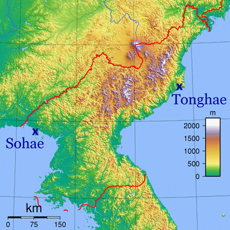 Locations of North Korean cosmodromes Sohae and Tonghae (Musudan-ri)